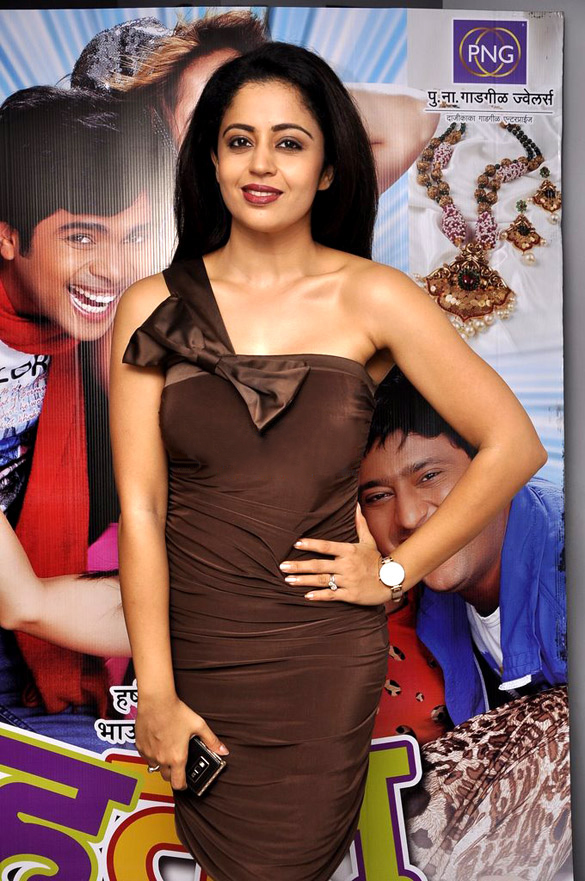 Neha Pendse at the premiere of Marathi film 'Hu Tu Tu'